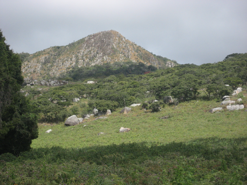 Gogogo, the highest peak of the Gorongosa mountain complex (Serra de Gorongosa) close to Gorongosa National Park in Mozambique